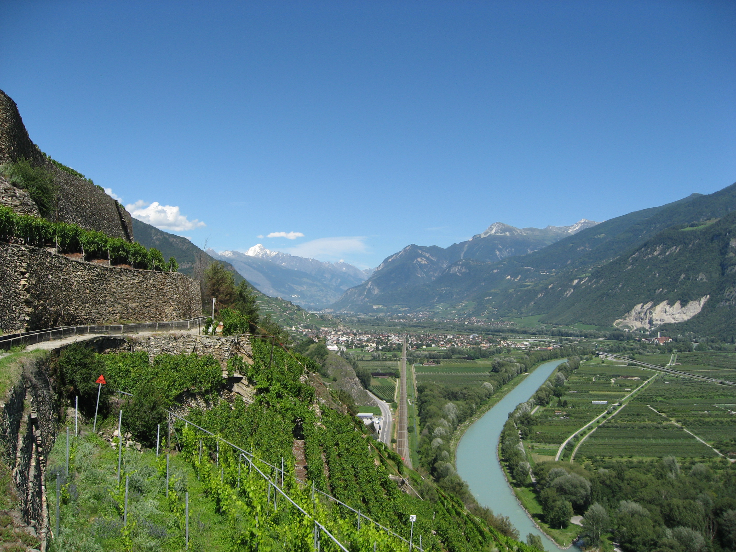 View of the Rhone from Bisse de Clavau near Sion to the Bietschhorn.